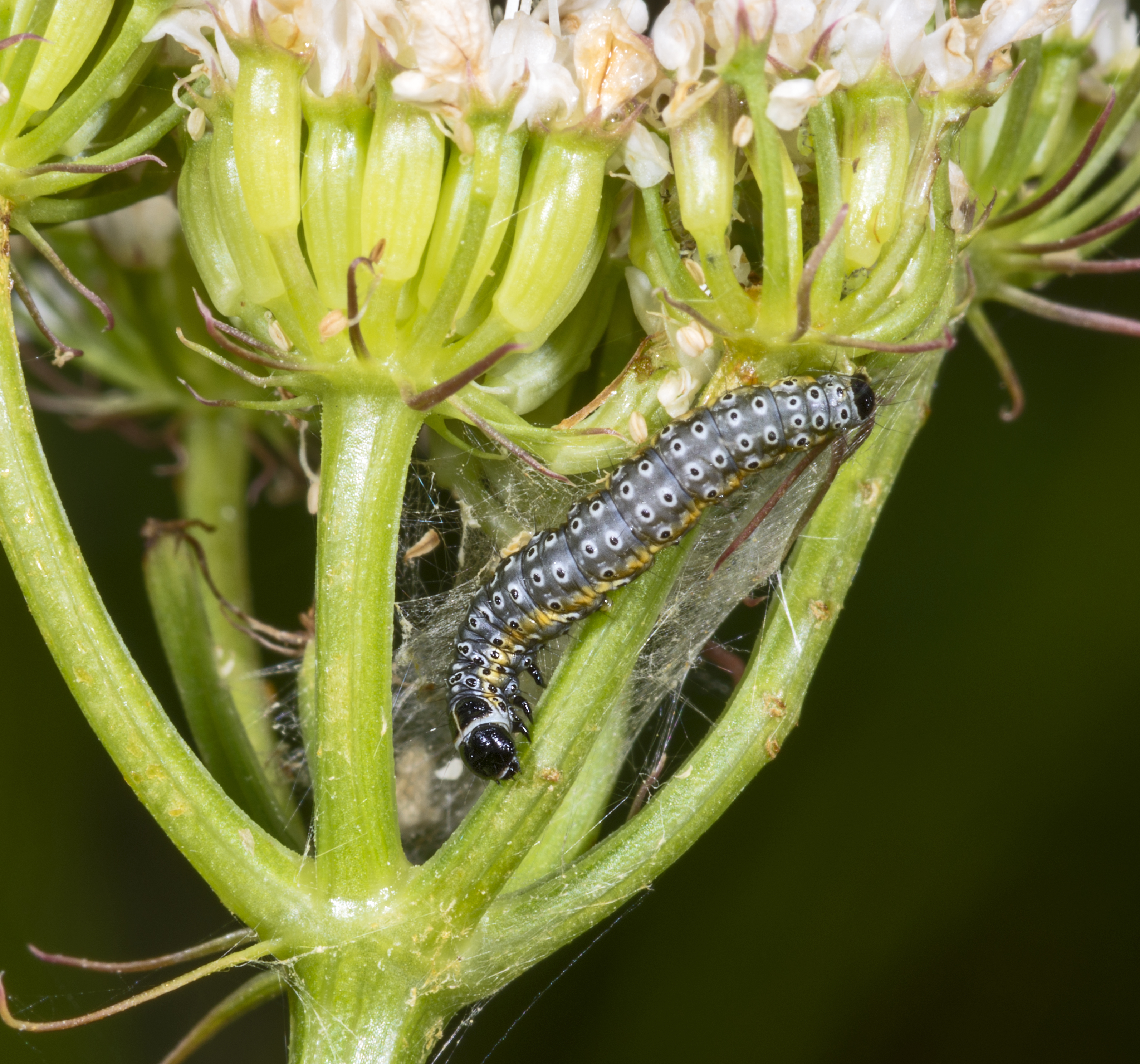 Caterpillar of Depressaria daucella.